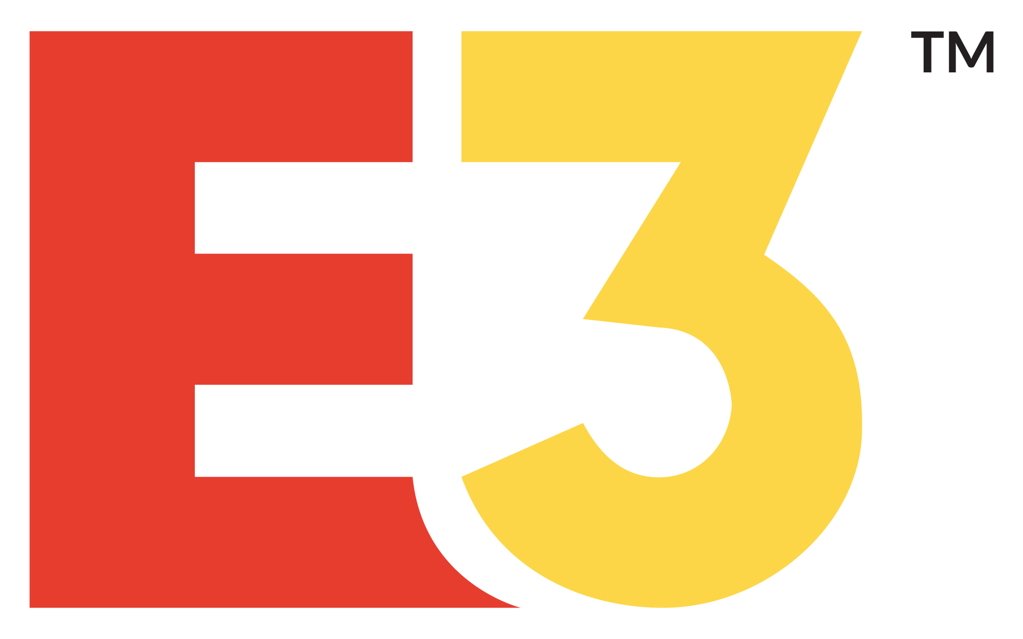 The logo for the Electronic Entertainment Expo, revealed in October 2017.